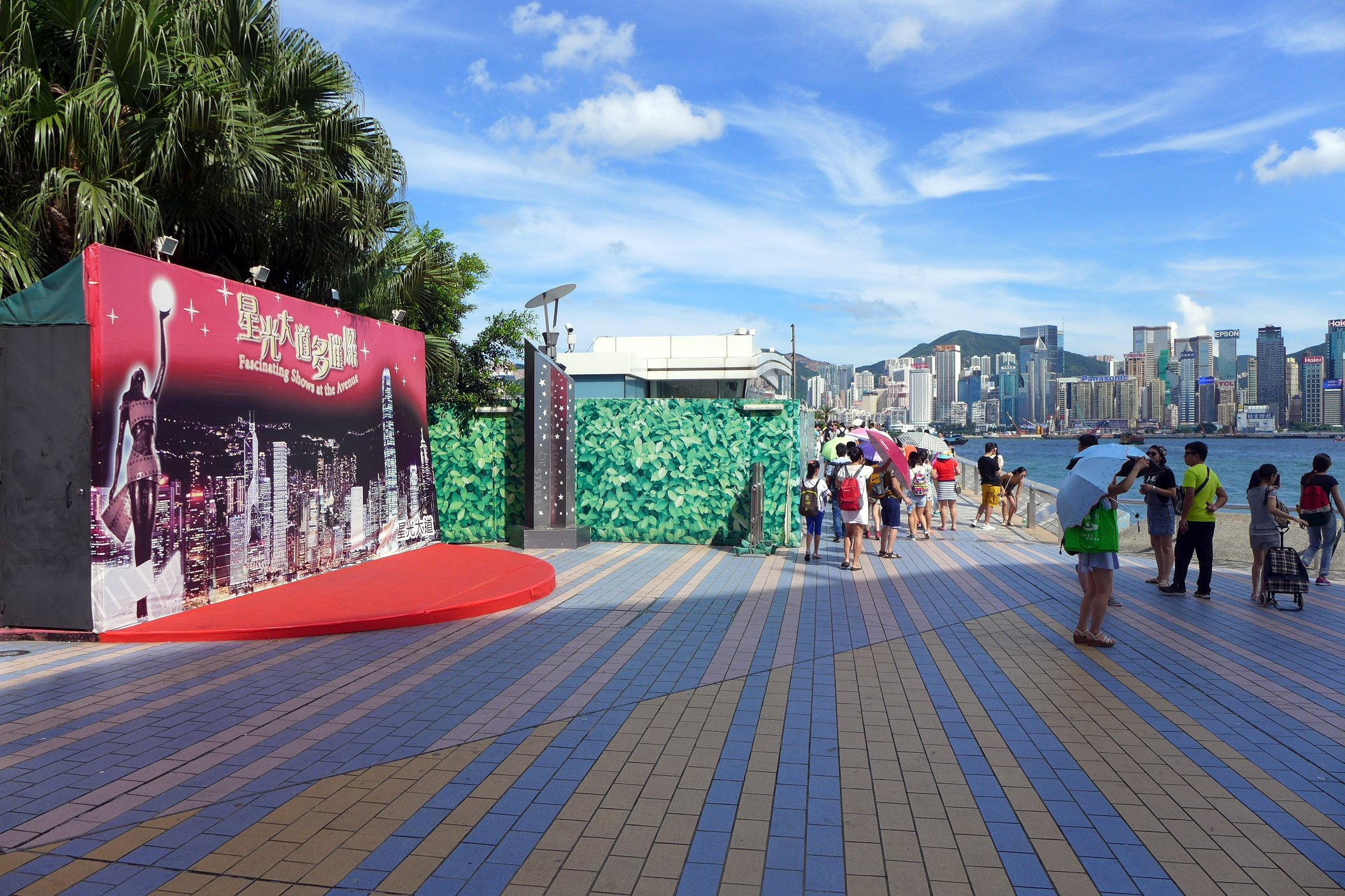 Avenue of Stars Performance Area